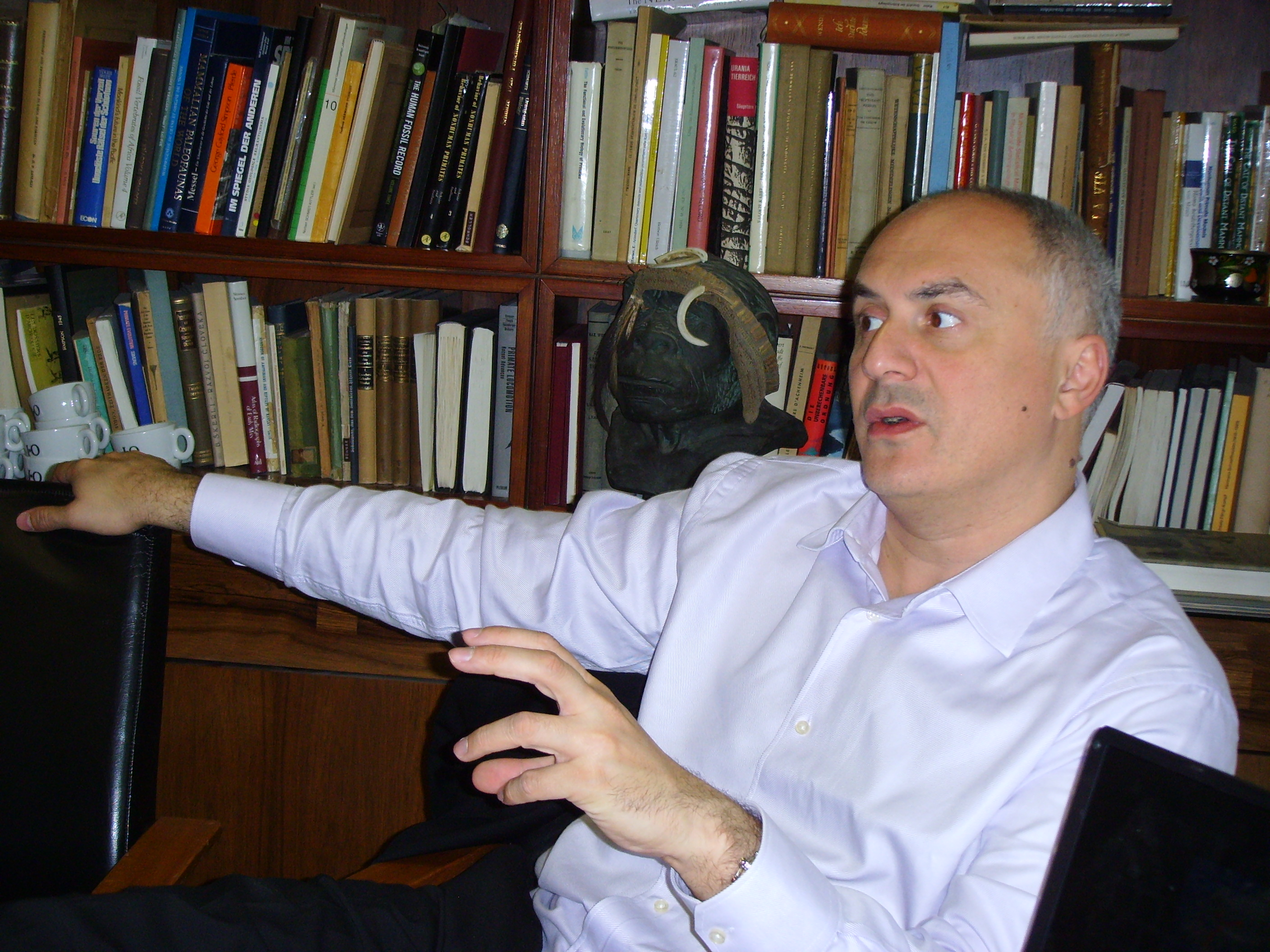 Prof. David Lordkipanidze, Georgian palaeoanthropologist. Senckenberg-Museum, Frankfurt am Main, Germany.